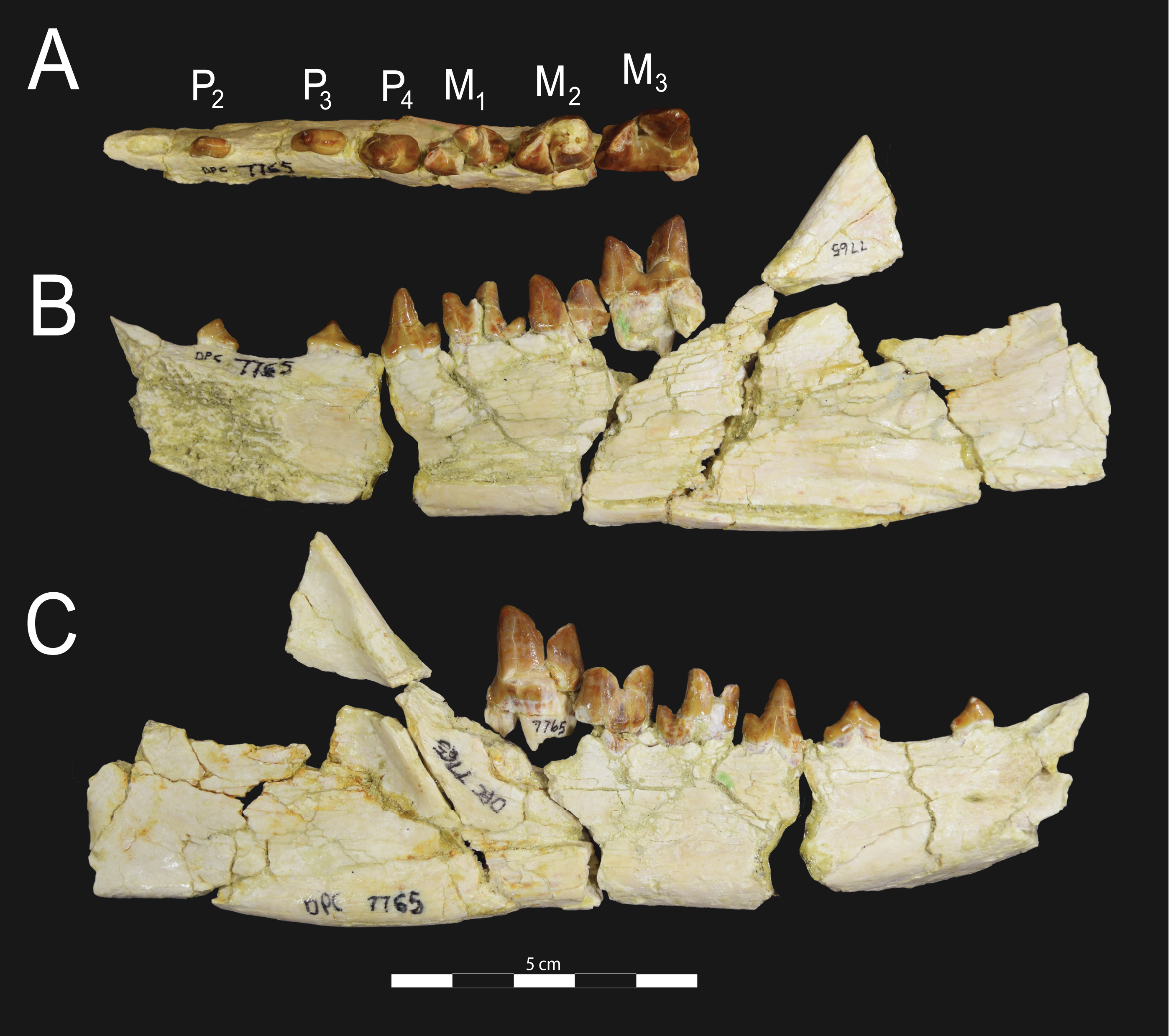 Akhnatenavus nefertiticyon DPC 7765 fragmented right dentary with P2–M3; (A) occlusal view; (B) lingual view; (C) buccal view